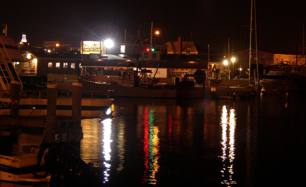 Hyannis Harbor at Night - by K.C. O'Kane